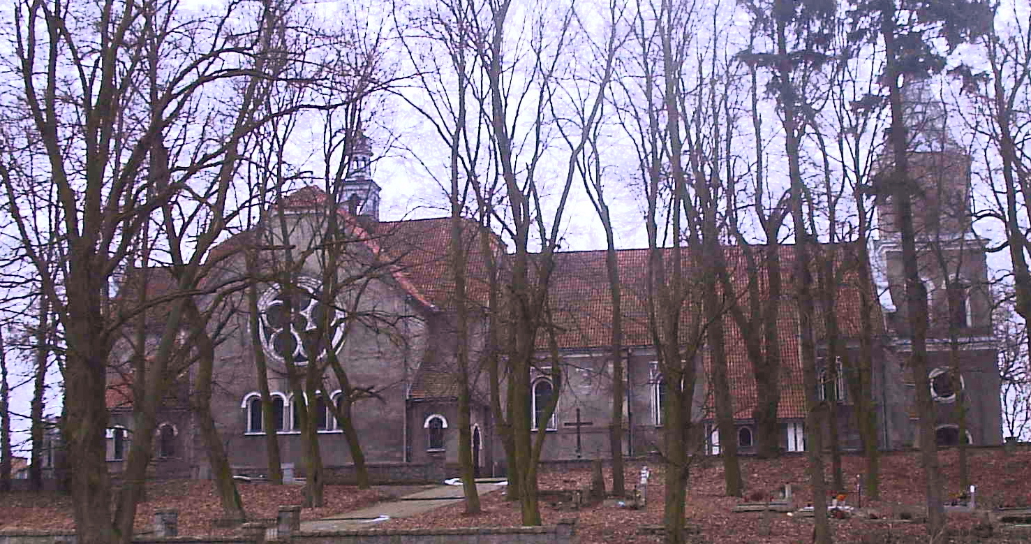 Saint Martin church in Strzelce Wielkie, Poland